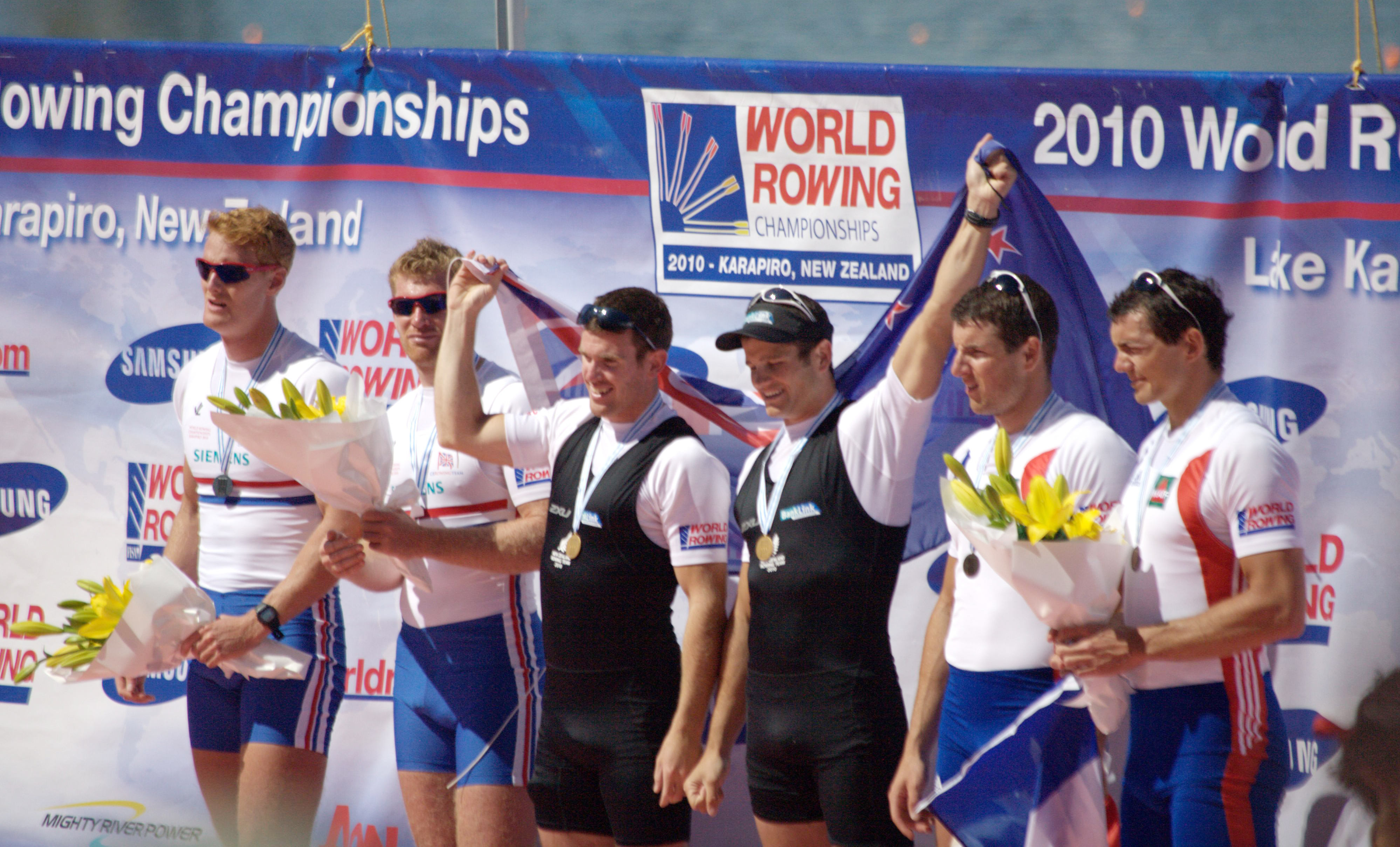 Joe Sullivan and Nathan Cohen enjoying the moment. 2010 World Rowing Championships.